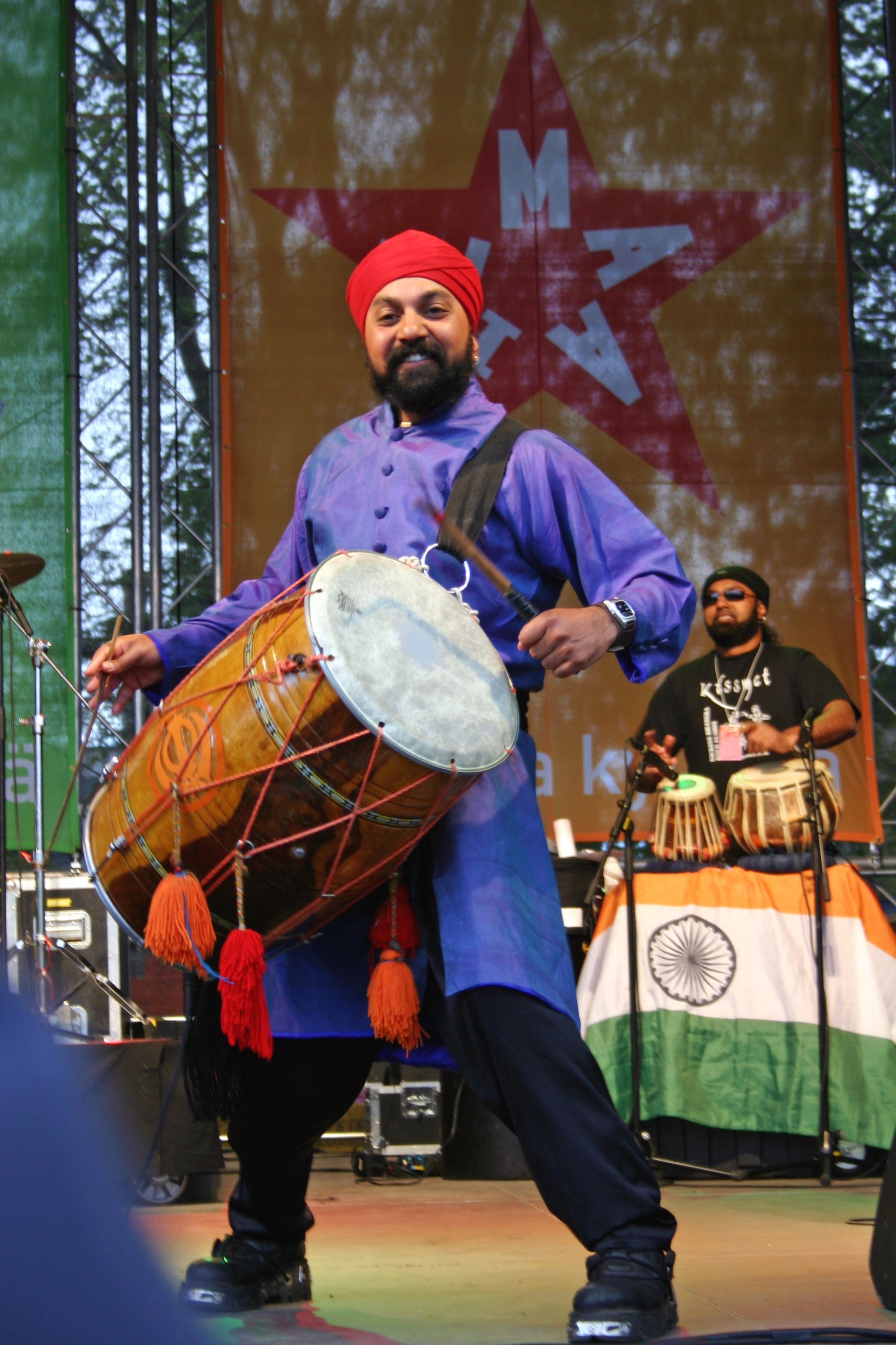 Buzz Singh, lead singer of Kissmet-band. Photo from Maailma Kylässä (World Village) -festival in Helsinki, Finland. 27.5.2006